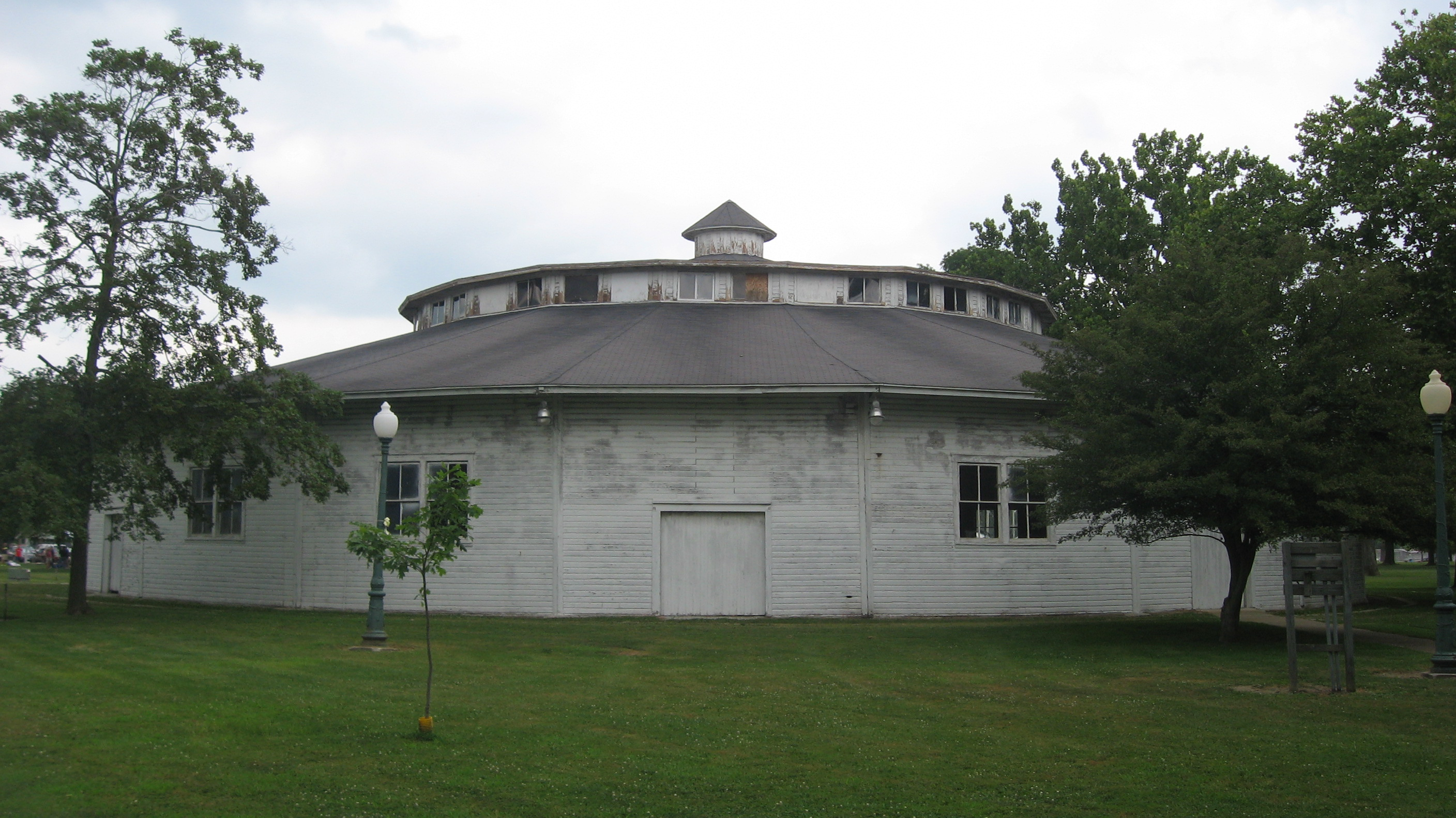 Southern side of the Shelbyville Chautauqua Auditorium, located on the grounds of Forest Park in Shelbyville, Illinois, United States. An icosahedral structure built in 1903, it is listed on the National Register of Historic Places.